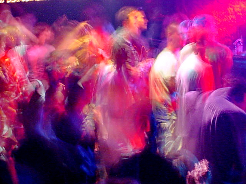 Rave dancers in natural motion - experimental digital photography by Rick Doble. Candid handheld photograph taken at 2 or 4 seconds (see EXIF data below) with an early digital camera in 2002 and shot under available light. Effects were created with photography and not created with computer graphics.